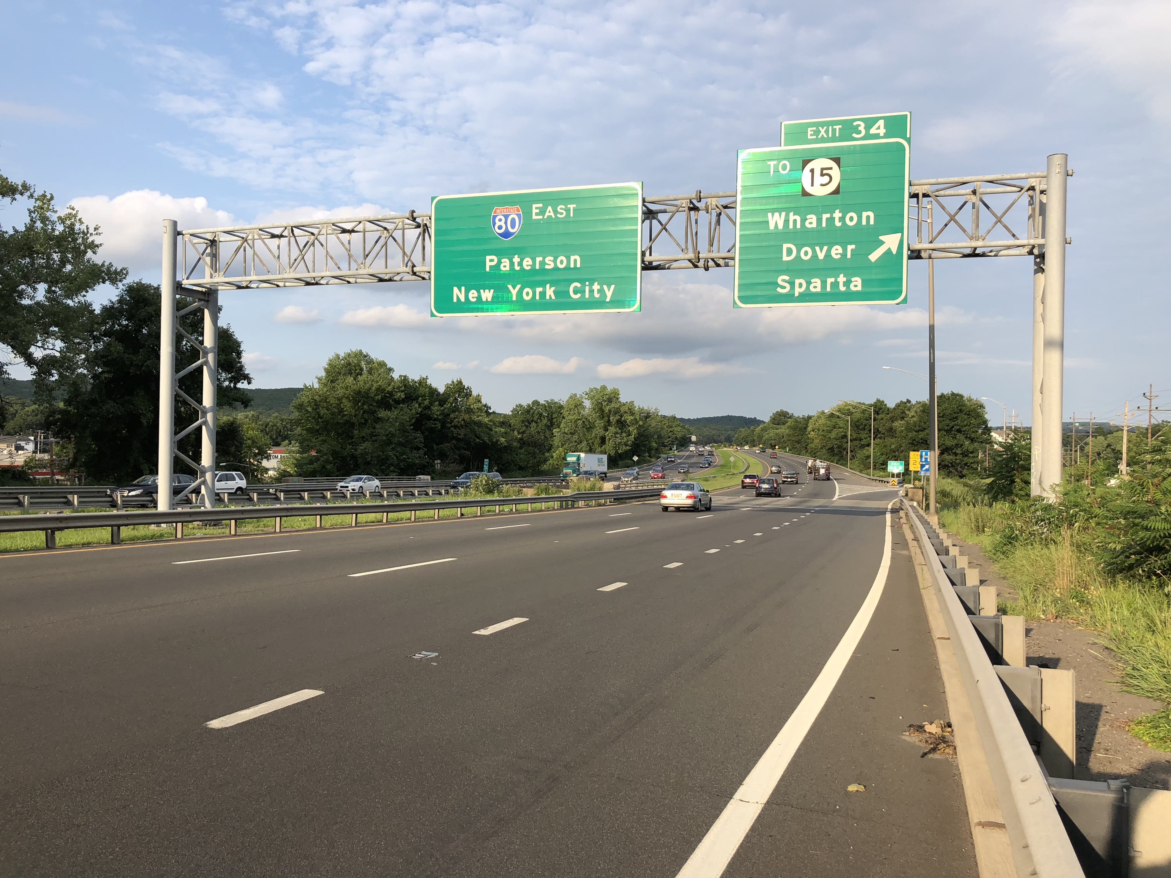 View east along Interstate 80 at Exit 34 (To New Jersey State Route 15, Wharton, Dover, Sparta) in Wharton, Morris County, New Jersey